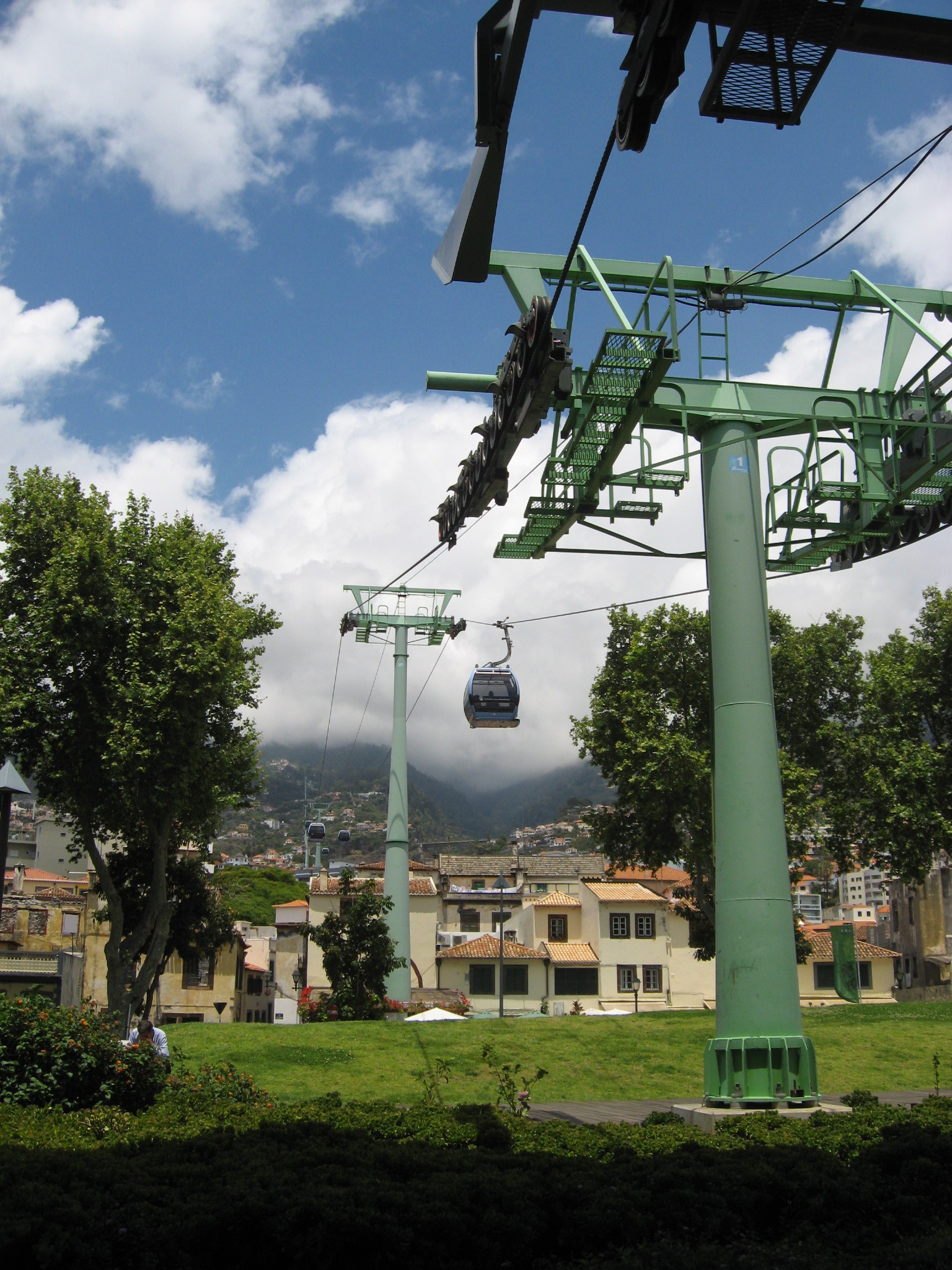 Gondola lift in Funchal, Madeira showing pier supports